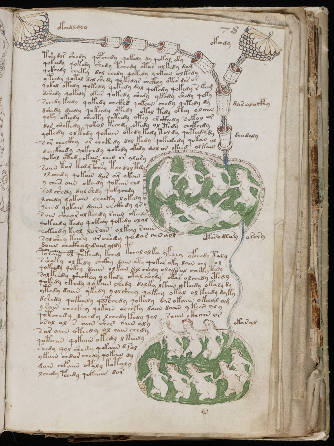 A page from the mysterious Voynich manuscript, which is undeciphered to this day.